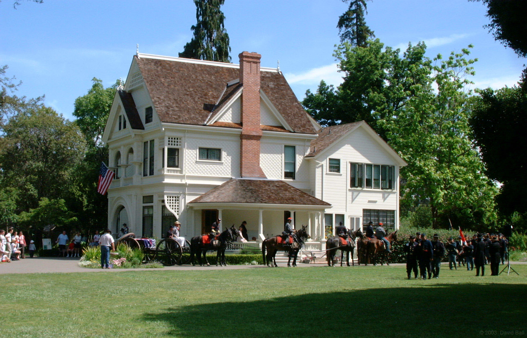 Description:Civil War reenactors in front of the Patterson house during Memorial Day 2003Photographer:David BallDate:Memorial Day 2003